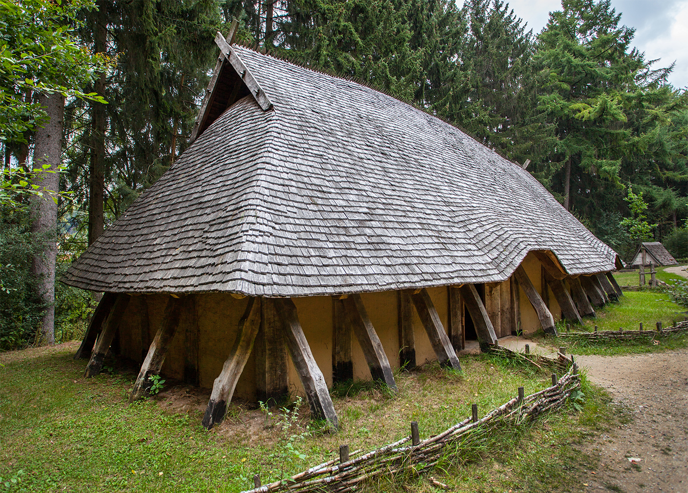 Reconstruction of an Saxon house of the Merovingian period at Archäologisches Freilichtmuseum Oerlinghausen